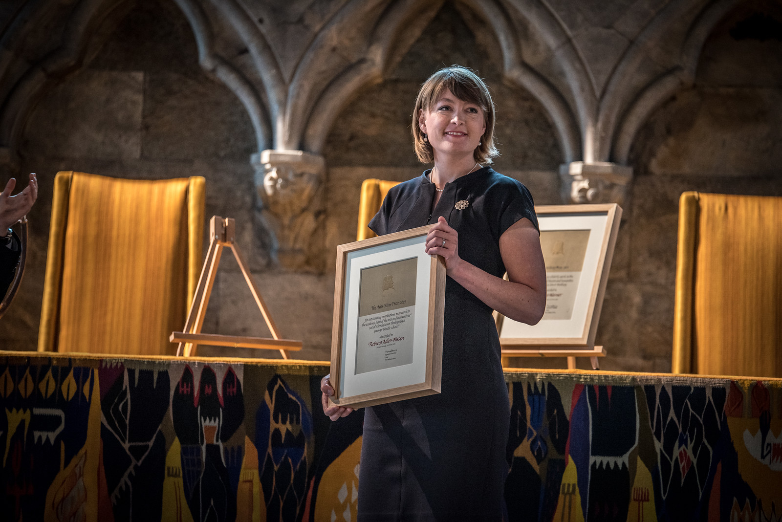 Rebecca Adler-Nissen winner of the Nils Klim prize